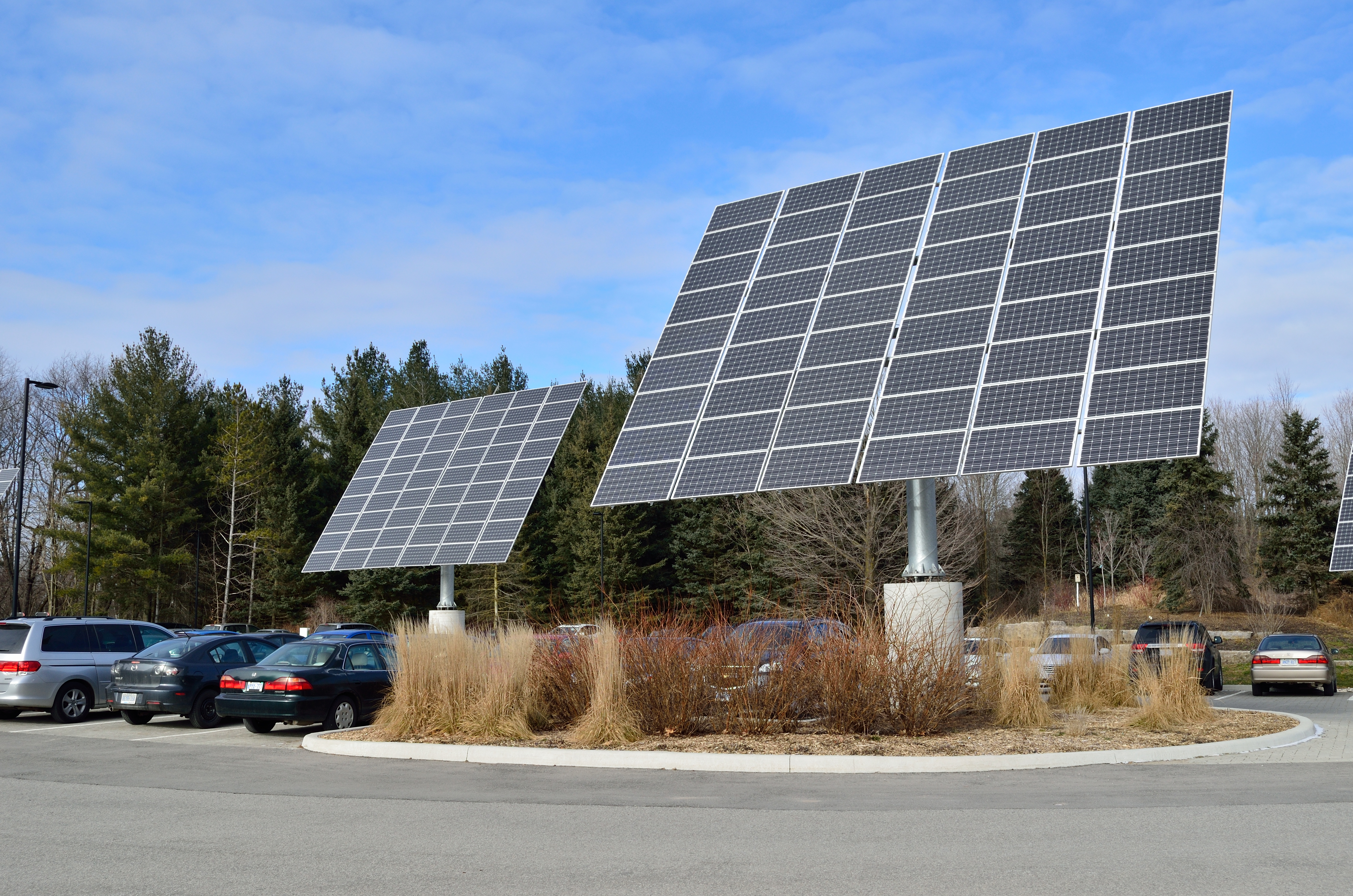 Solar Panels at Earth Rangers Centre